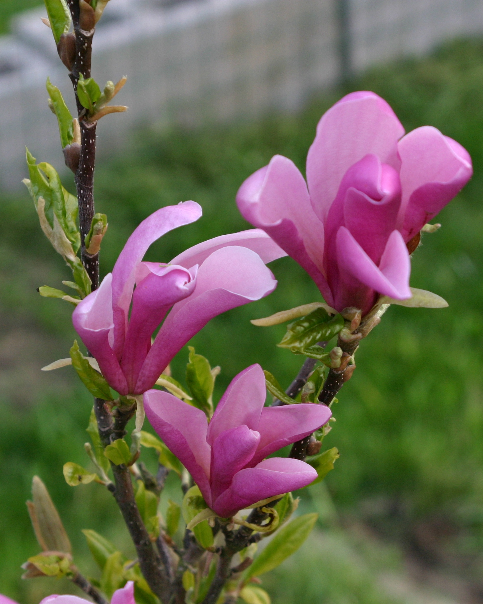 Flower of supposed Magnolia liliiflora Nigra